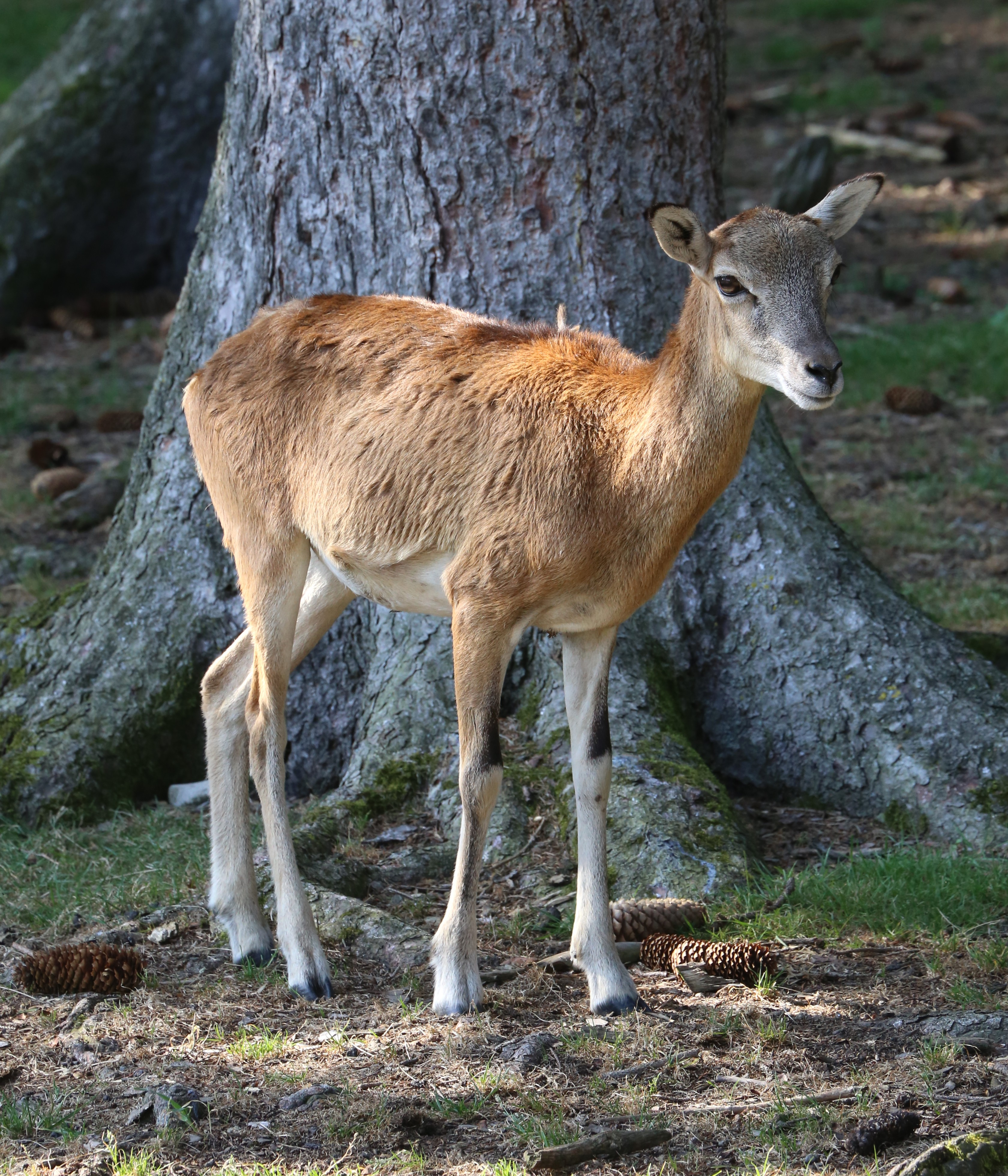 Mufflon (Ovis orientalis musimon) im Wildpark Poing